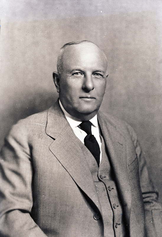 Portrait of Captain Phineas Banning Blanchard